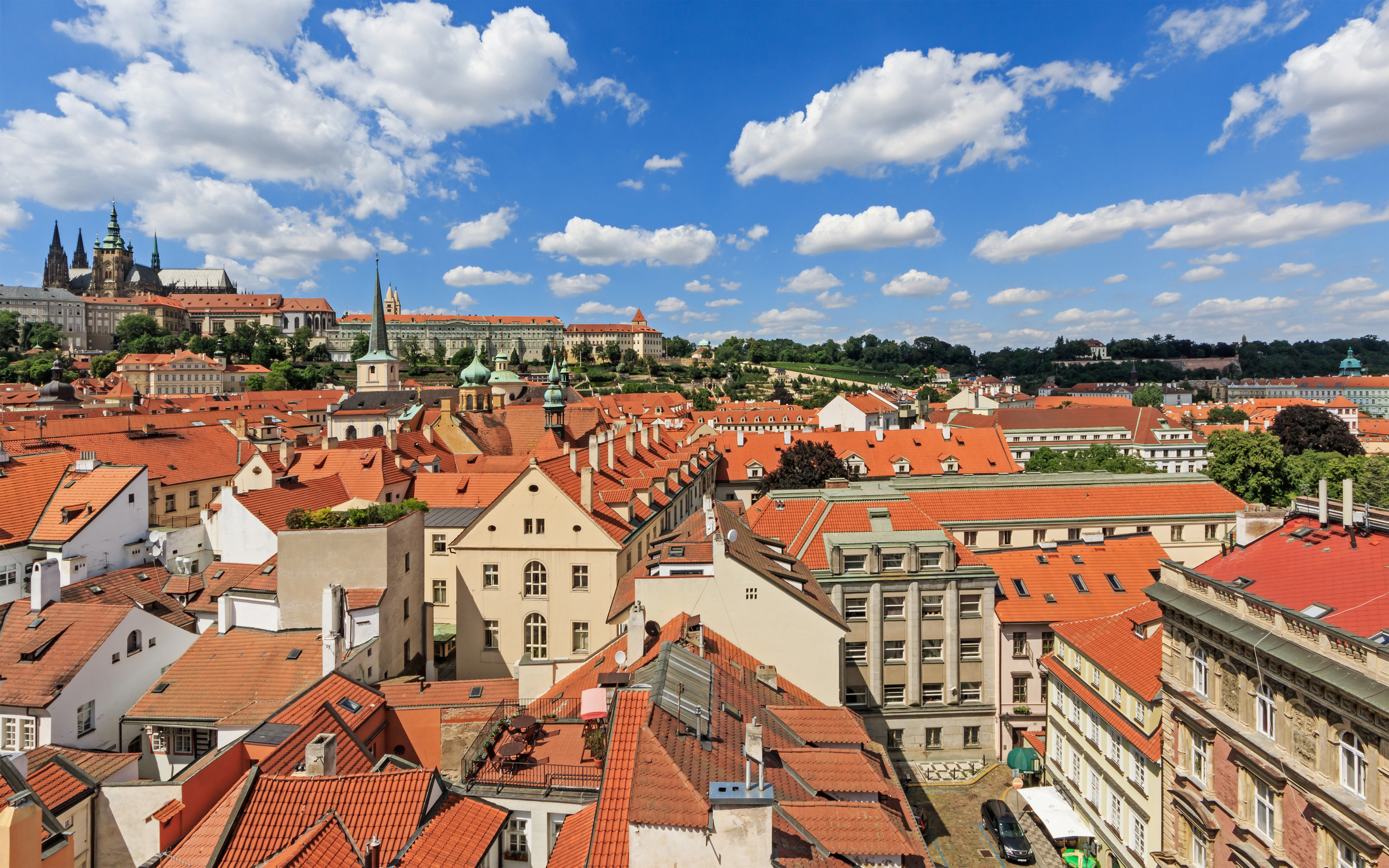 View from the Lesser Town tower of Charles Bridge in Prague (Czech Republic)